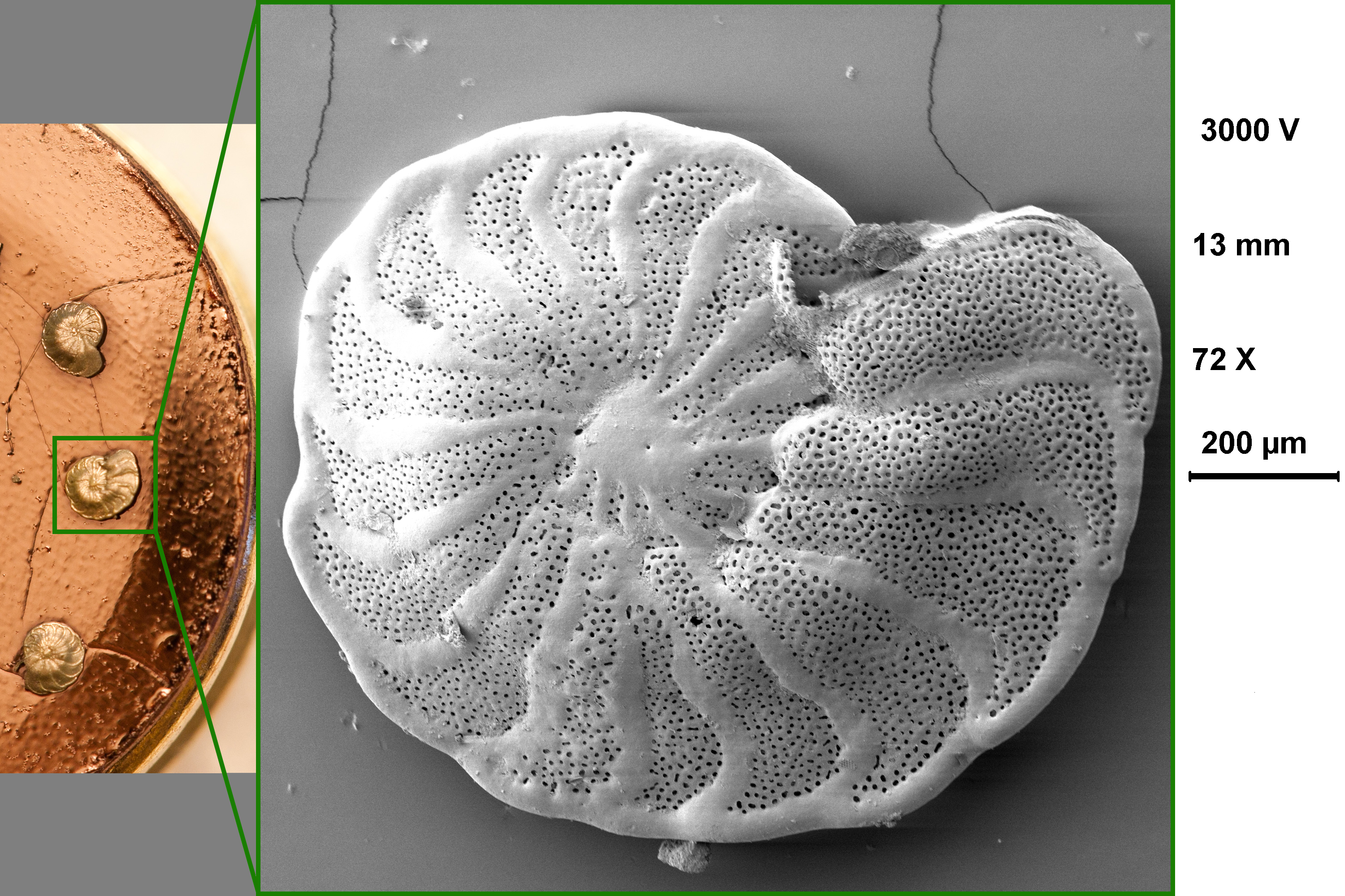 Comparative picture of Planulina Limbata captured with a Zeiss DSM 940 scanning electron microscope.